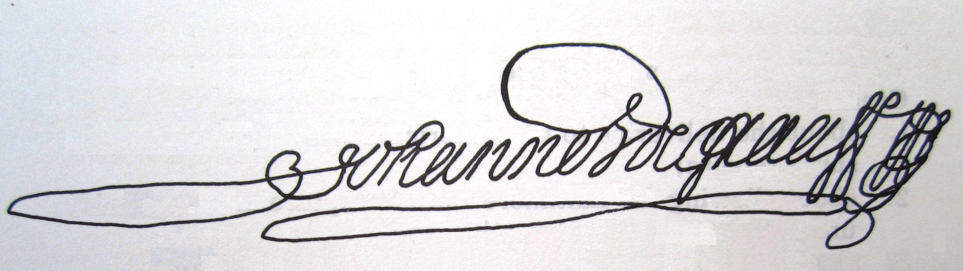 Signature of Johannes de Graaff, Commander (Governor) of St. Eustatius